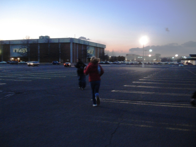 Outside of Brunswick Square in East Brunswick, New Jersey, United States.